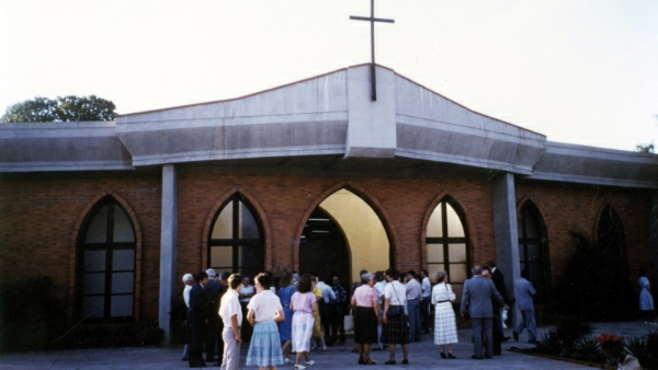 Asuncion, Paraguay Citation: Mennonite World Conference Records, 1923-2012. X-009. Mennonite Church USA Archives - Goshen. Goshen, Indiana. Box 21, Folder 2.